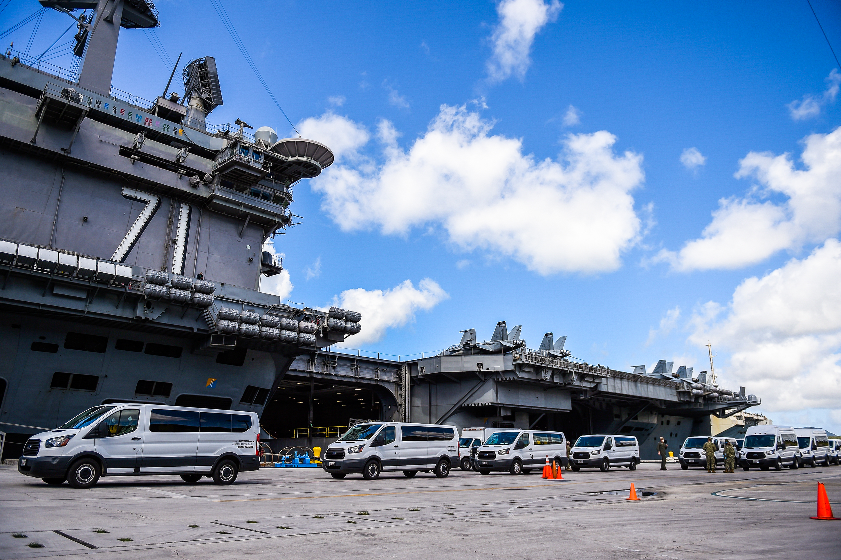 U.S. Navy Seabees assigned to Naval Mobile Construction Battalion (NMCB) 1 and NMCB 5 coordinate transportation of sailors assigned to the aircraft carrier USS Theodore Roosevelt (CVN-71) who have tested negative for COVID-19 and are asymptomatic from Naval Base Guam to government of Guam and military-approved commercial lodging. The sailors were required to remain in quarantine in their assigned lodging for at least 14 days, in accordance with U.S. Department of Defense directive and the Governor's executive order.